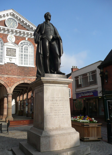 Statue of The Right Honourable Sir Robert Peel Bart. This is the statue of Sir Robert Peel MP for Tamworth until 1850